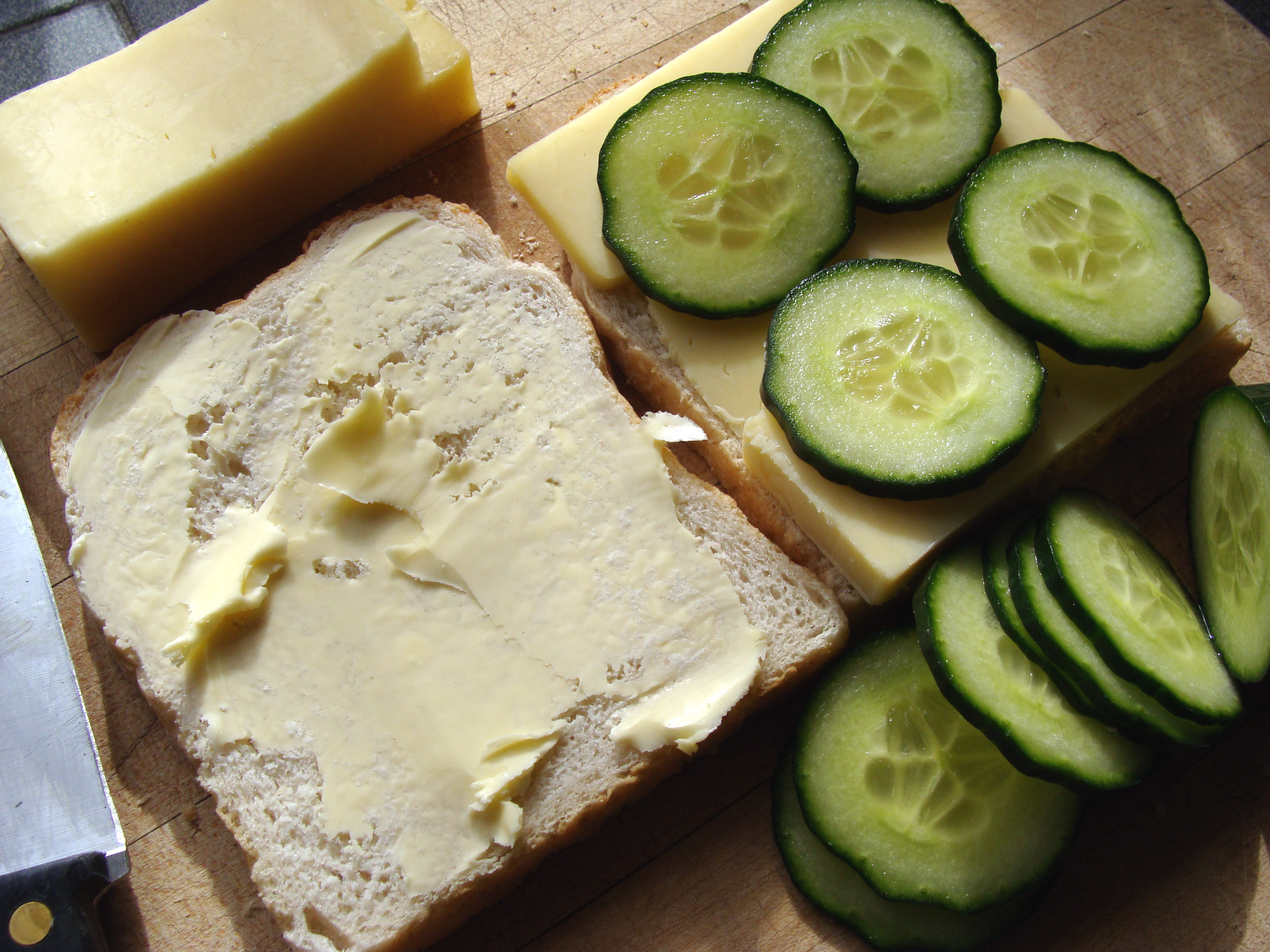 Making cheese and cucumber sandwiches